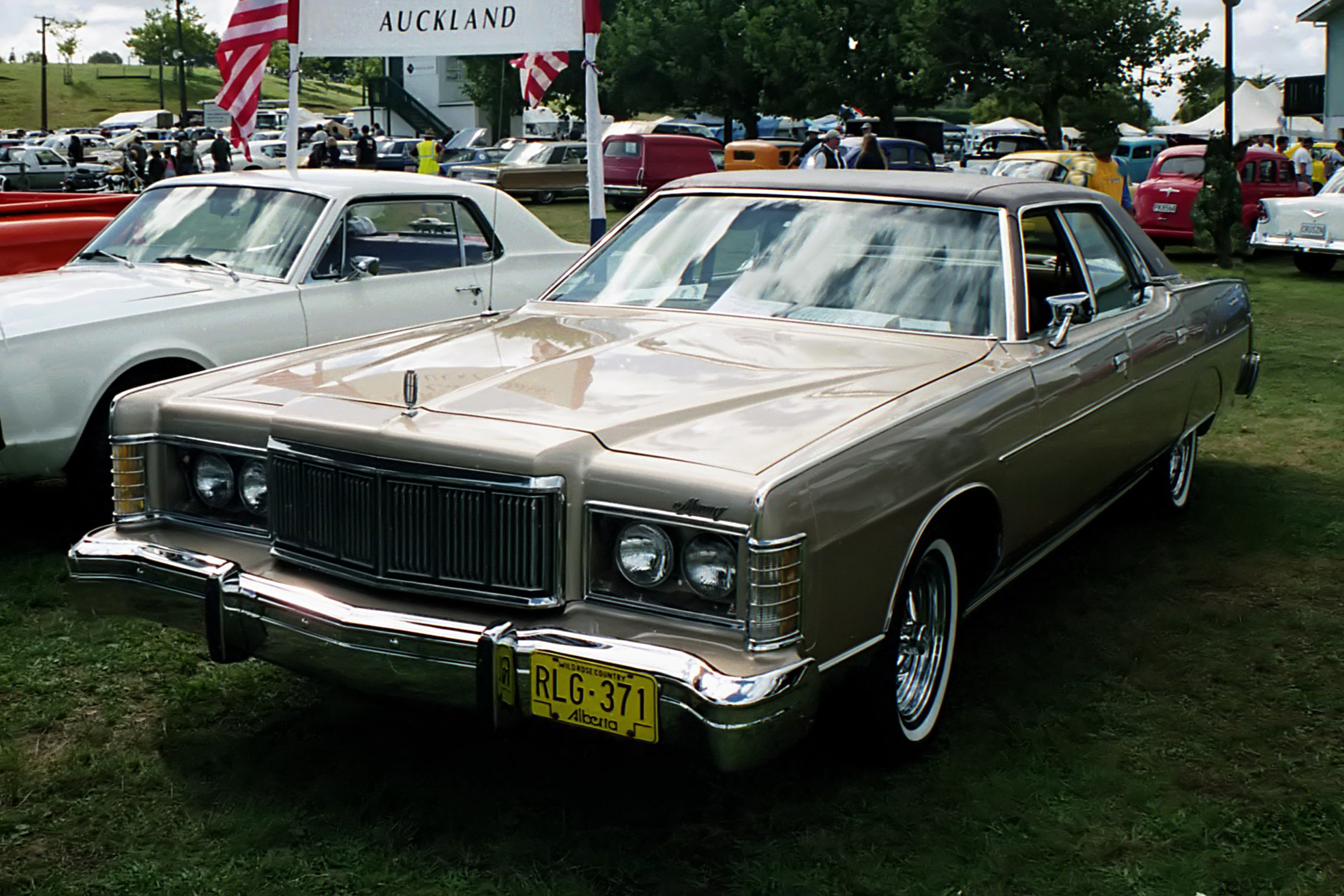 Mercury